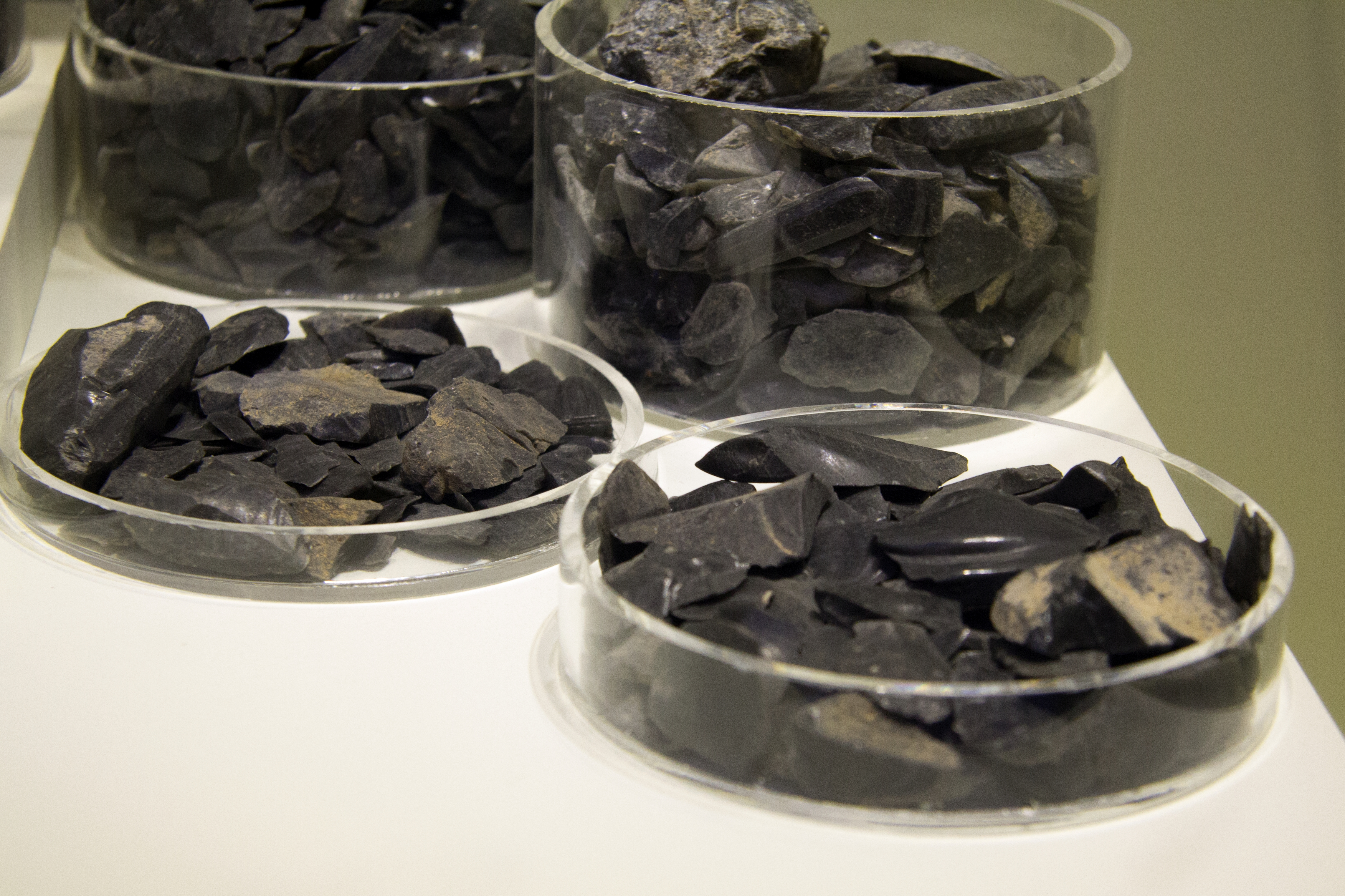 Large amounts of obsidian imported from Melos (Milos), at various stages of the manufacturing process, were found at Poros Heraklion, 3000 – 2300 BC.